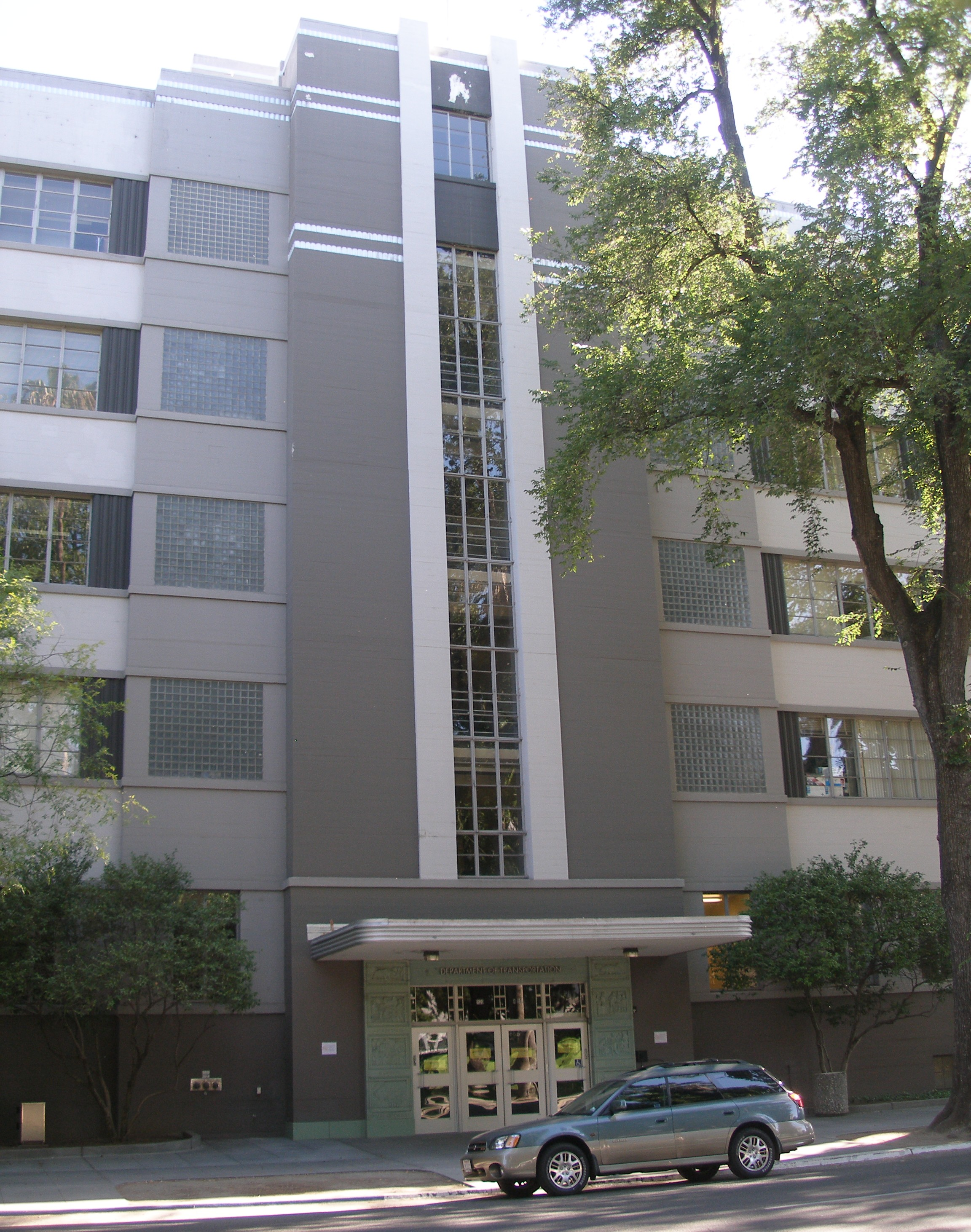 Entrance to Caltrans headquarters at 1120 N Street in Sacramento.